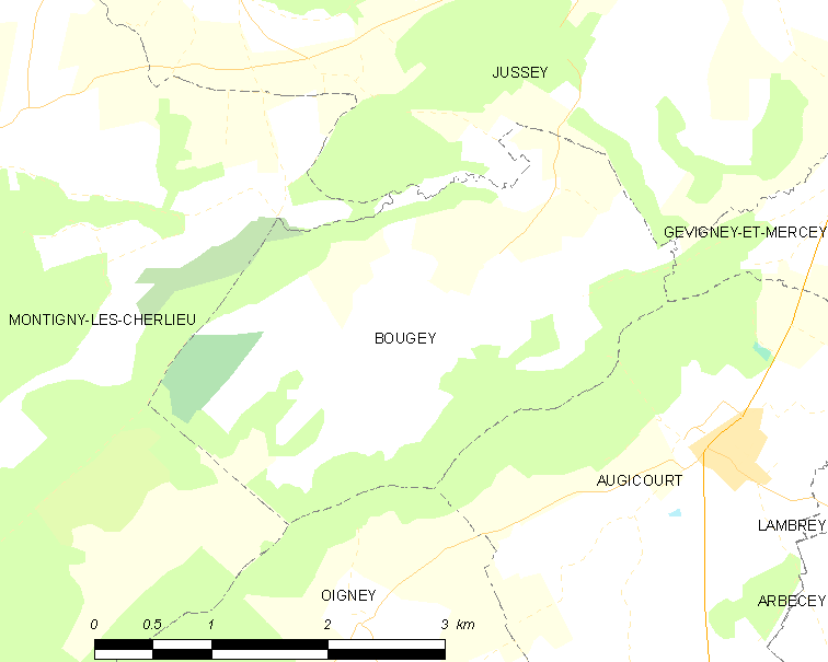 Map of French municipality